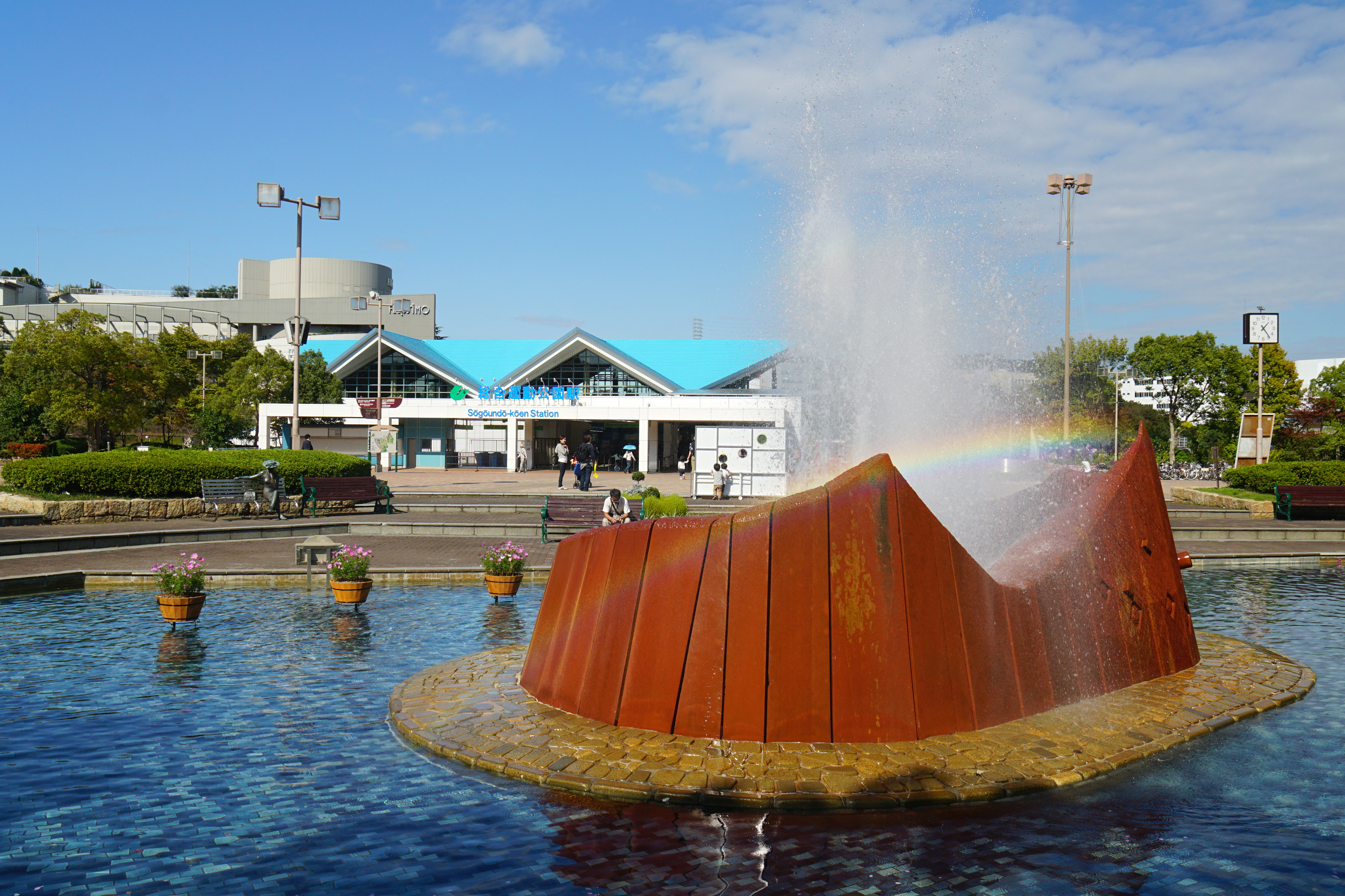 Sōgō Undō Kōen Station in Kobe, Hyogo prefecture, Japan